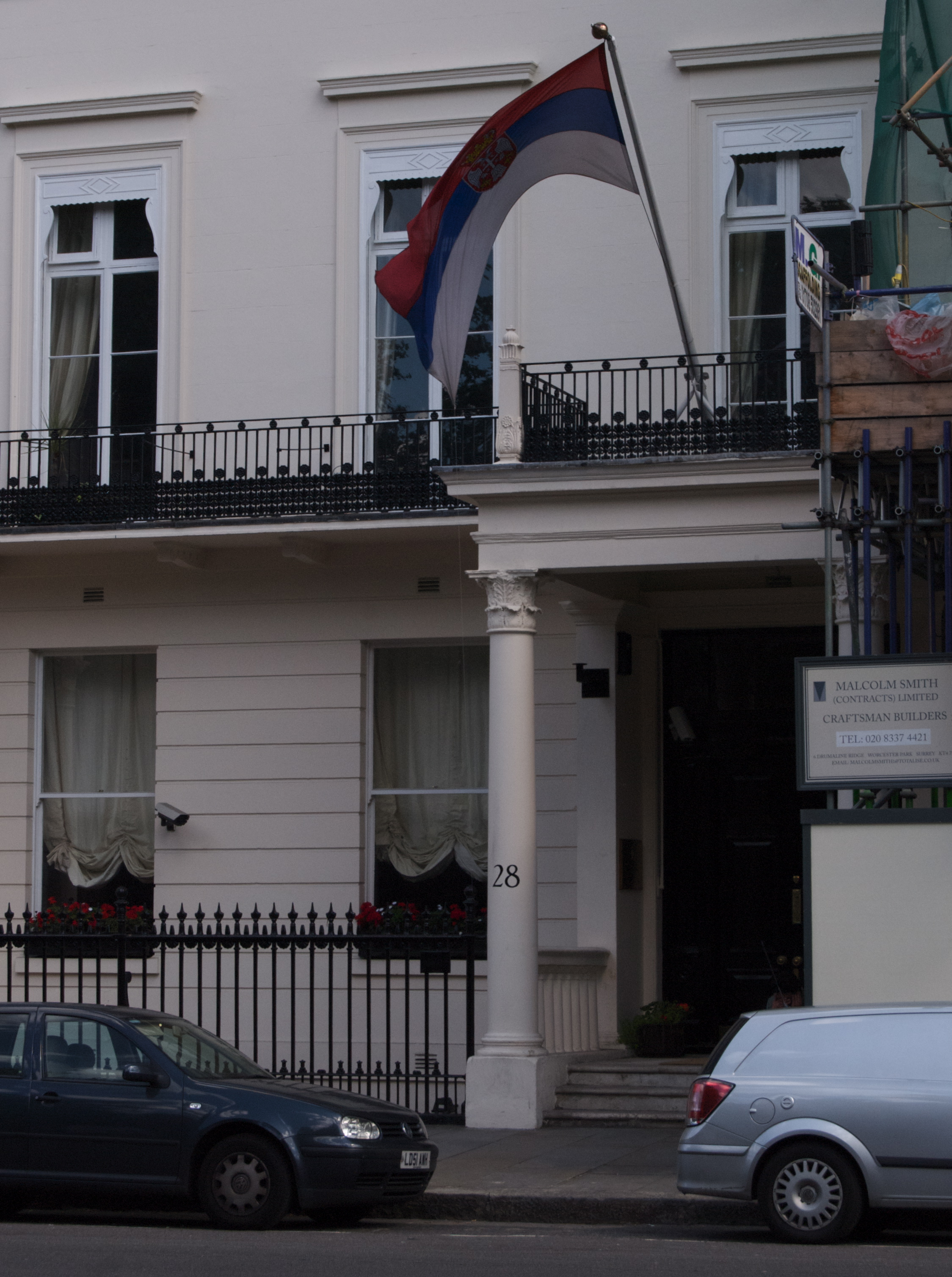 The Serbian embassy in London - Belgrave Square